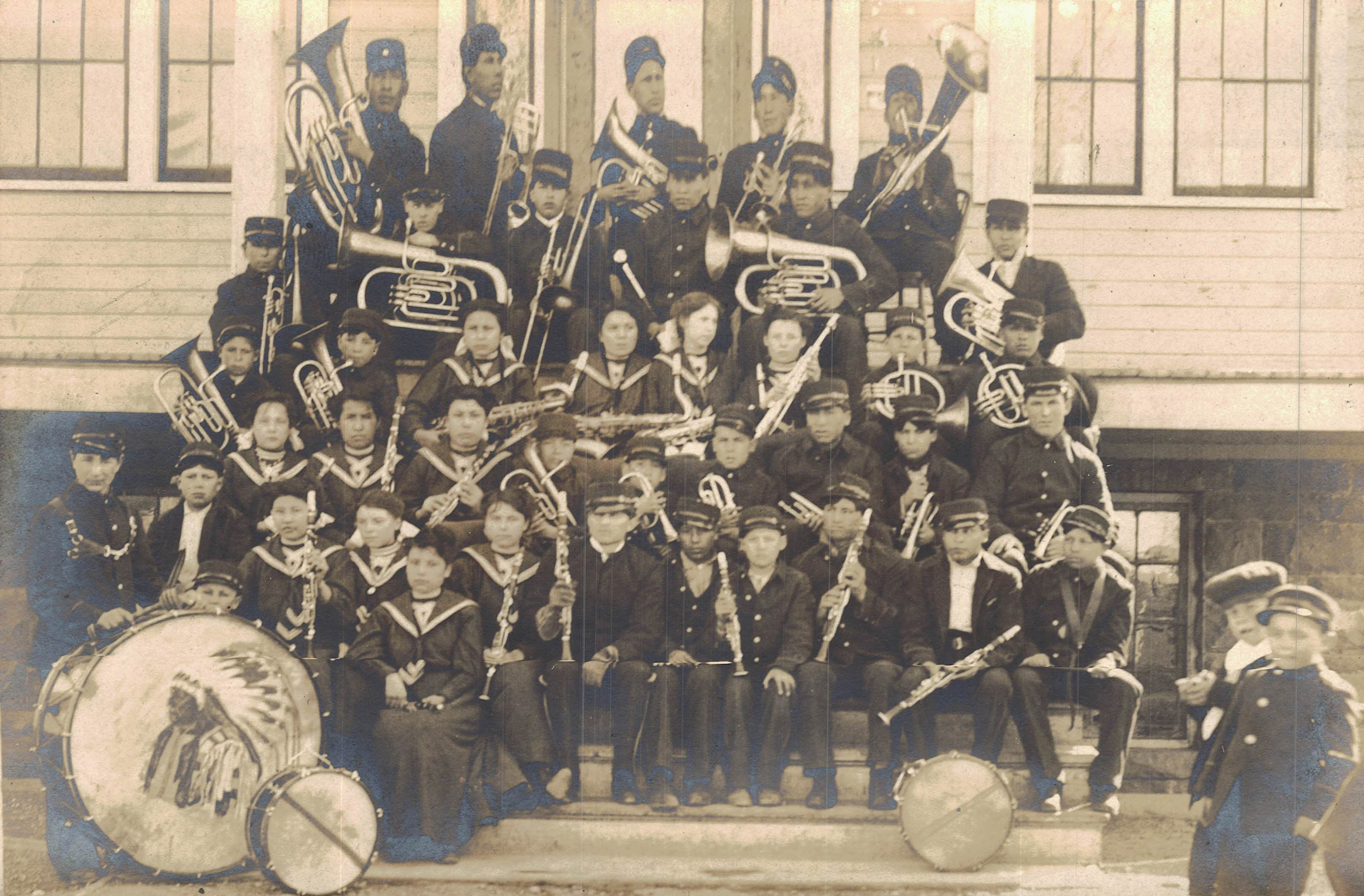 This is the Ft. Shaw Band under charge of Matthew Flyn, an army man